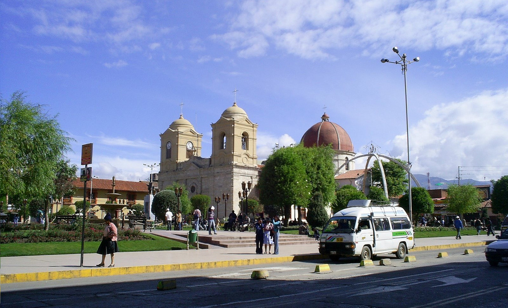 Huancayo city, Peru. Plaza de la Constitucion and the Cathedral.